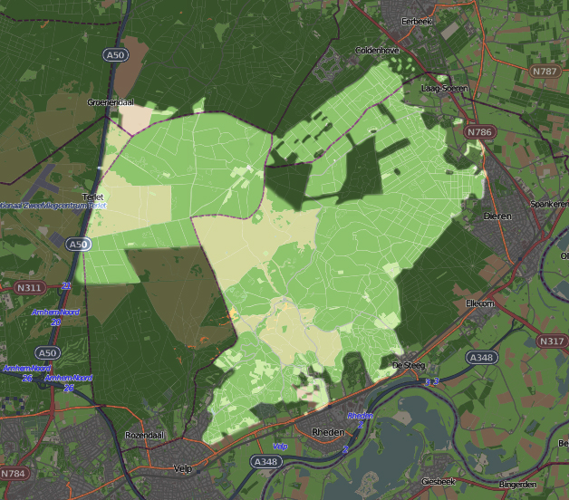 This map may be incomplete, and may contain errors. Don't rely solely on it for navigation.